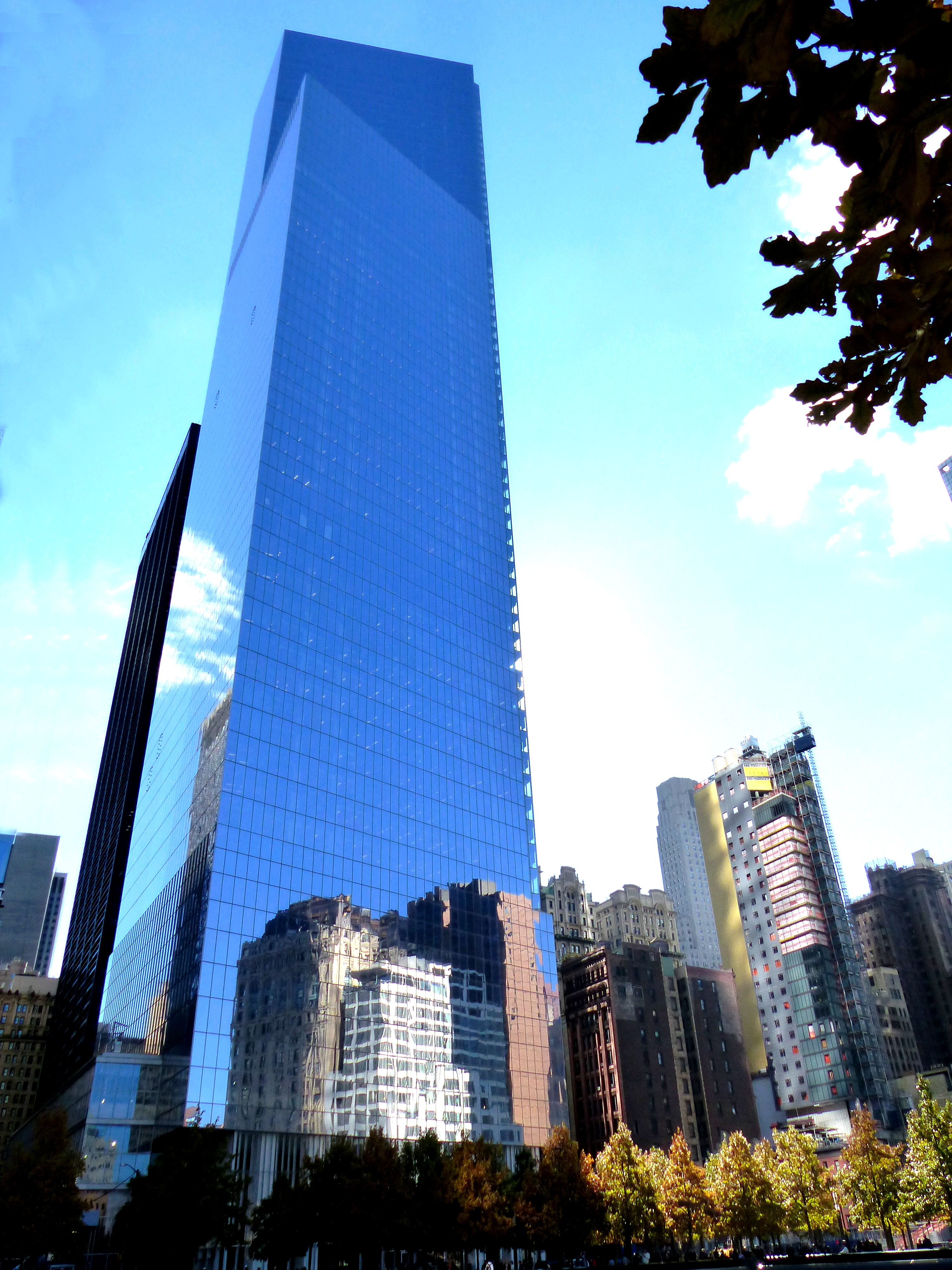 NYC - Four World Trade Center